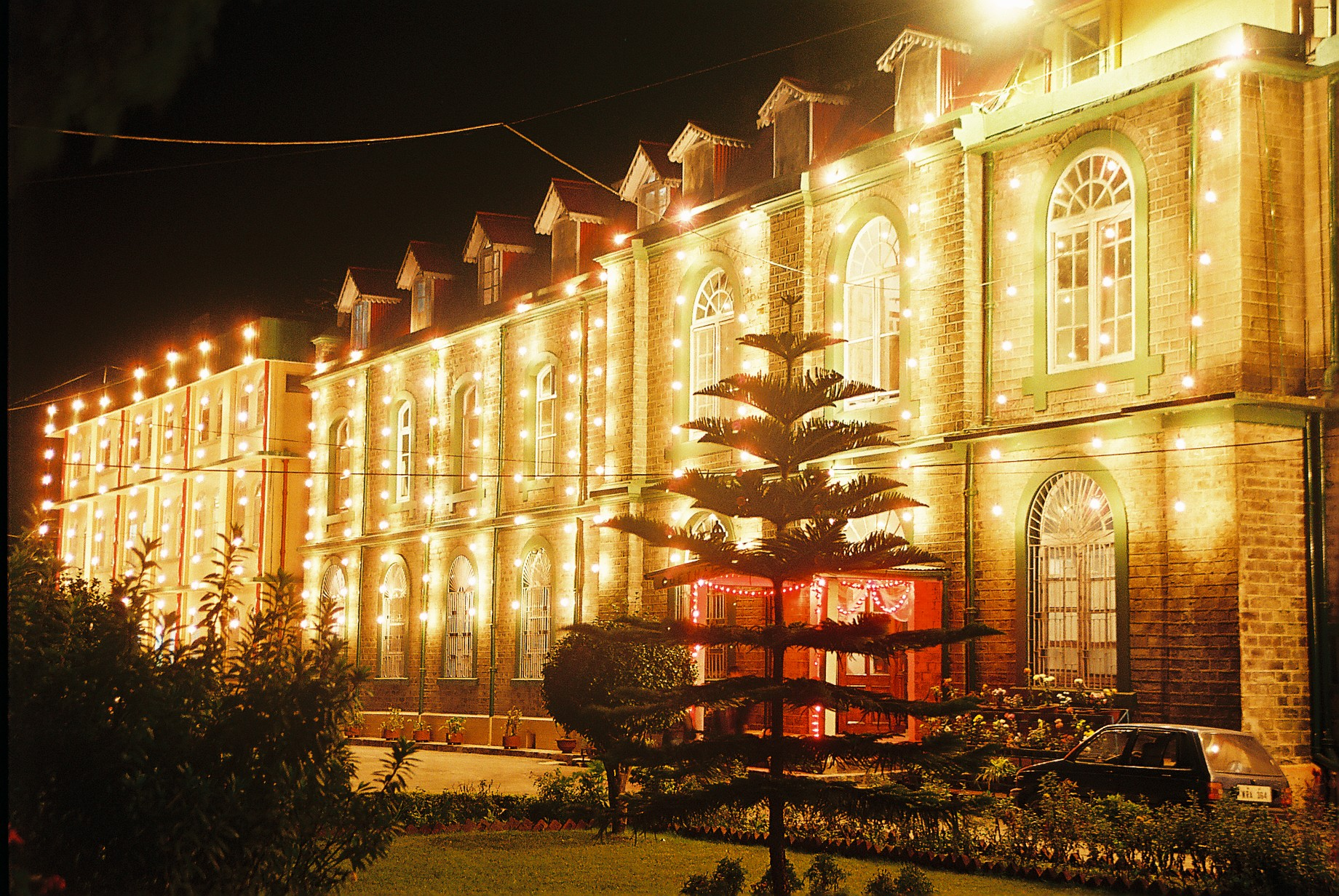 Goethals Memorial School Centenary Celebrations, November 2007